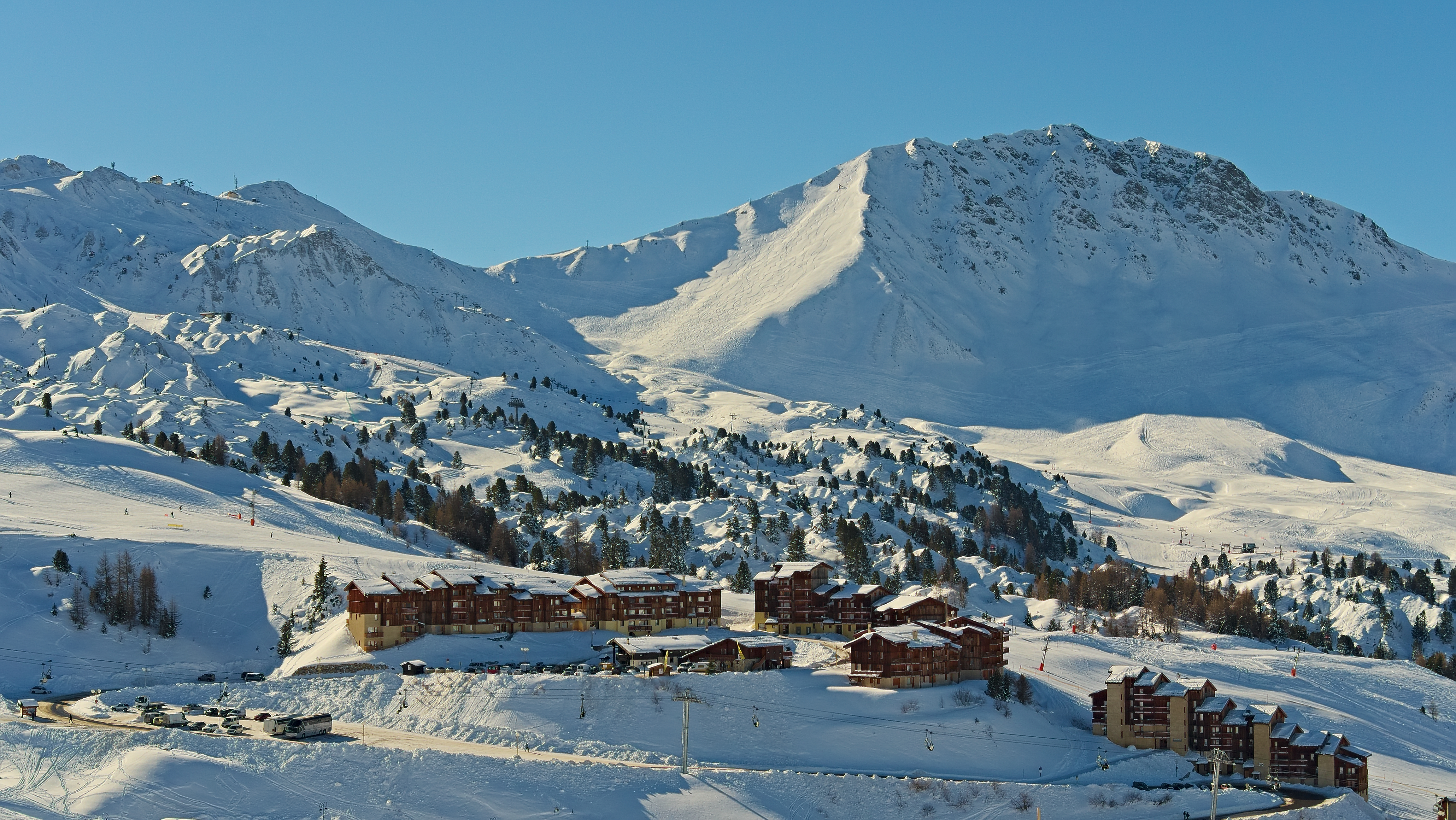 Paradiski, Plagne Villages. Taken in La Plagne, ski slope bretelle trieuse, Savoie, France.